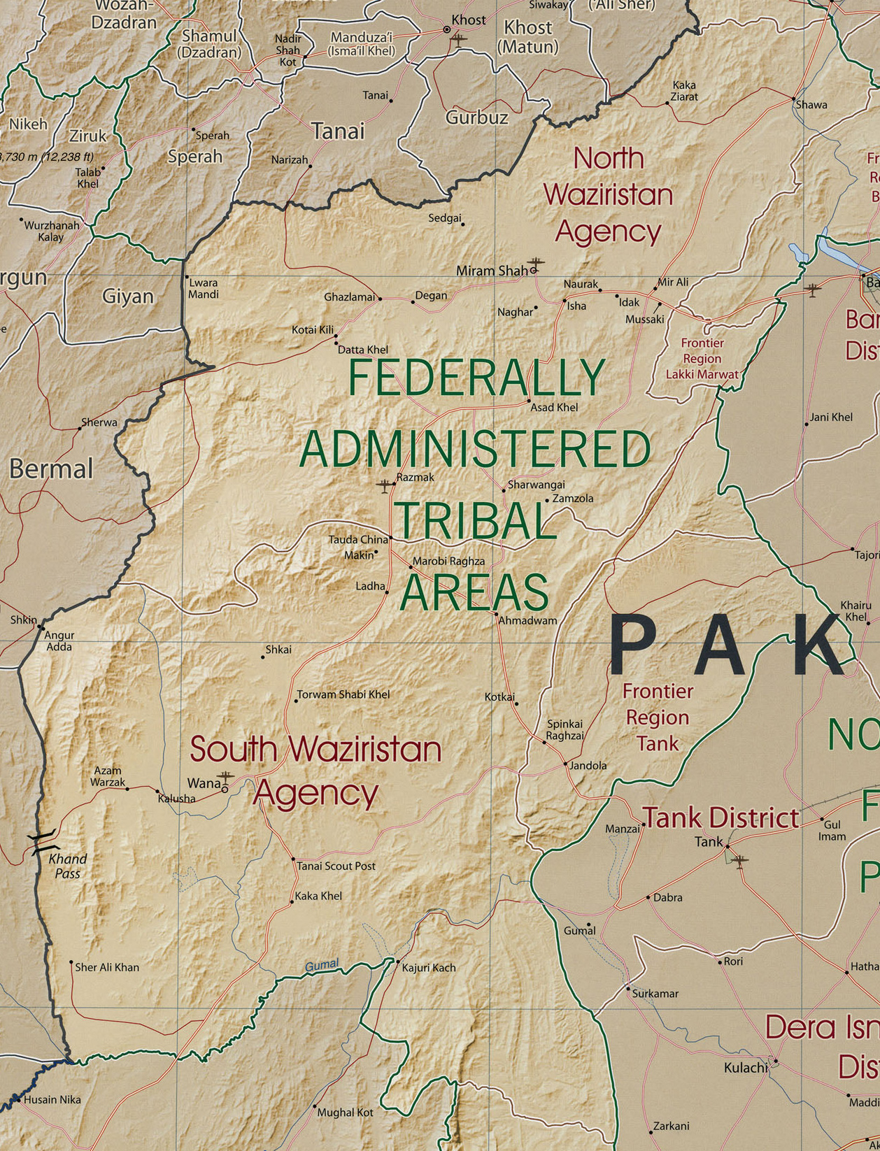 Relief map of North and South Waziristan as of 2008.